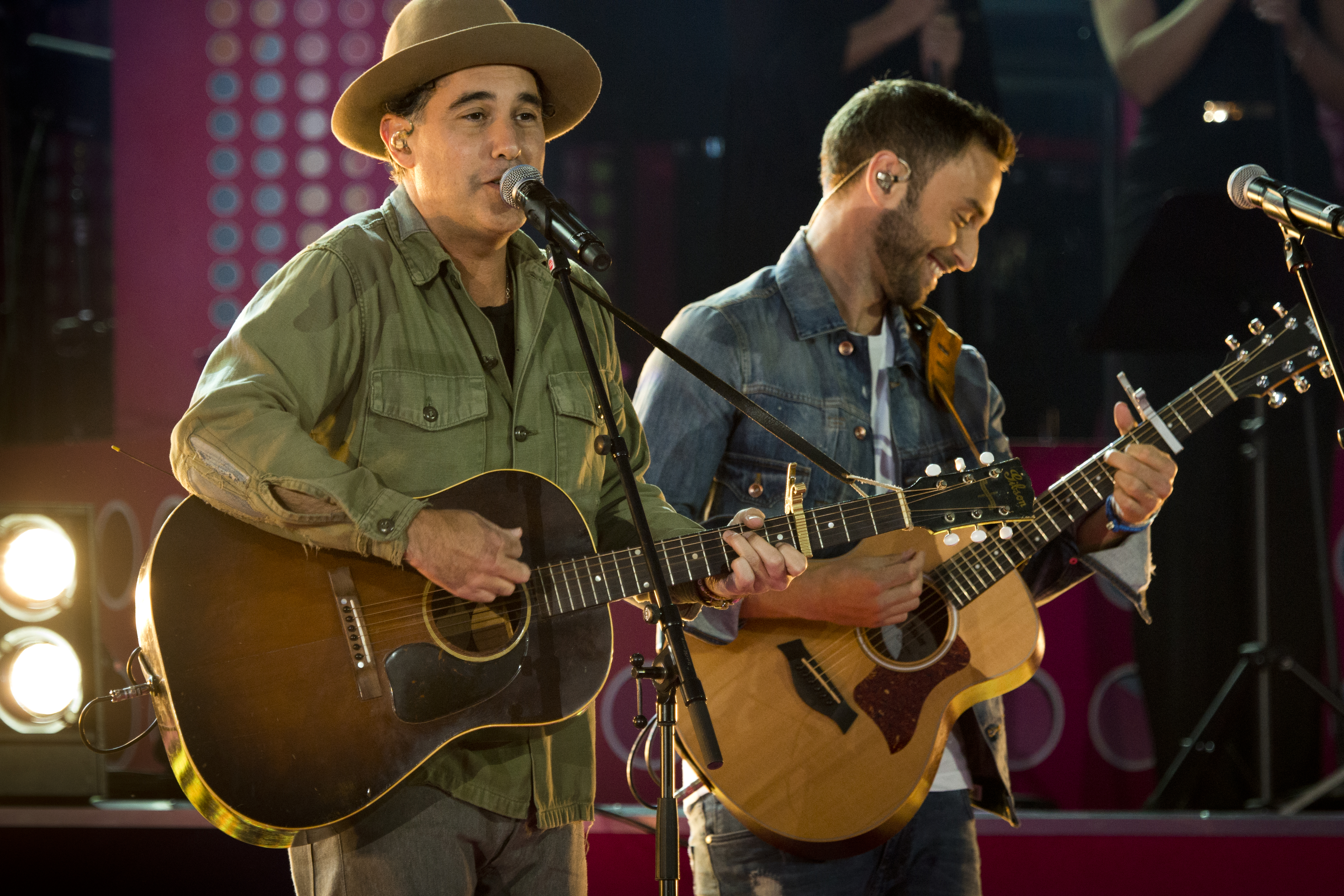 Måns Zelmerlöw & Joshua Radin at Sommarkrysset, Gröna Lund in Stockholm (Sweden)